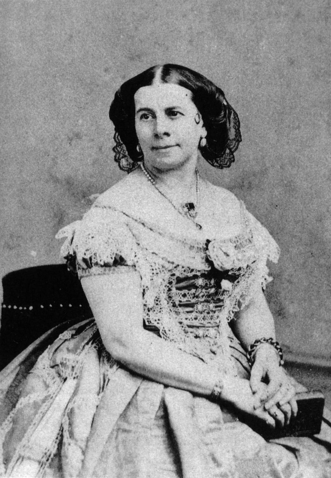 Anna Bishop (1810–1884), English soprano